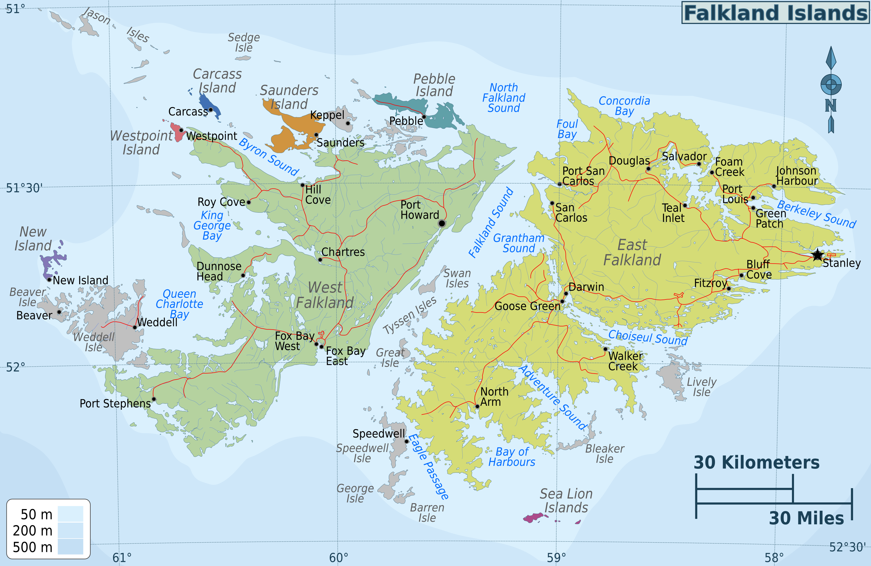 Falkland Islands regions map for use on Wikivoyage, English version